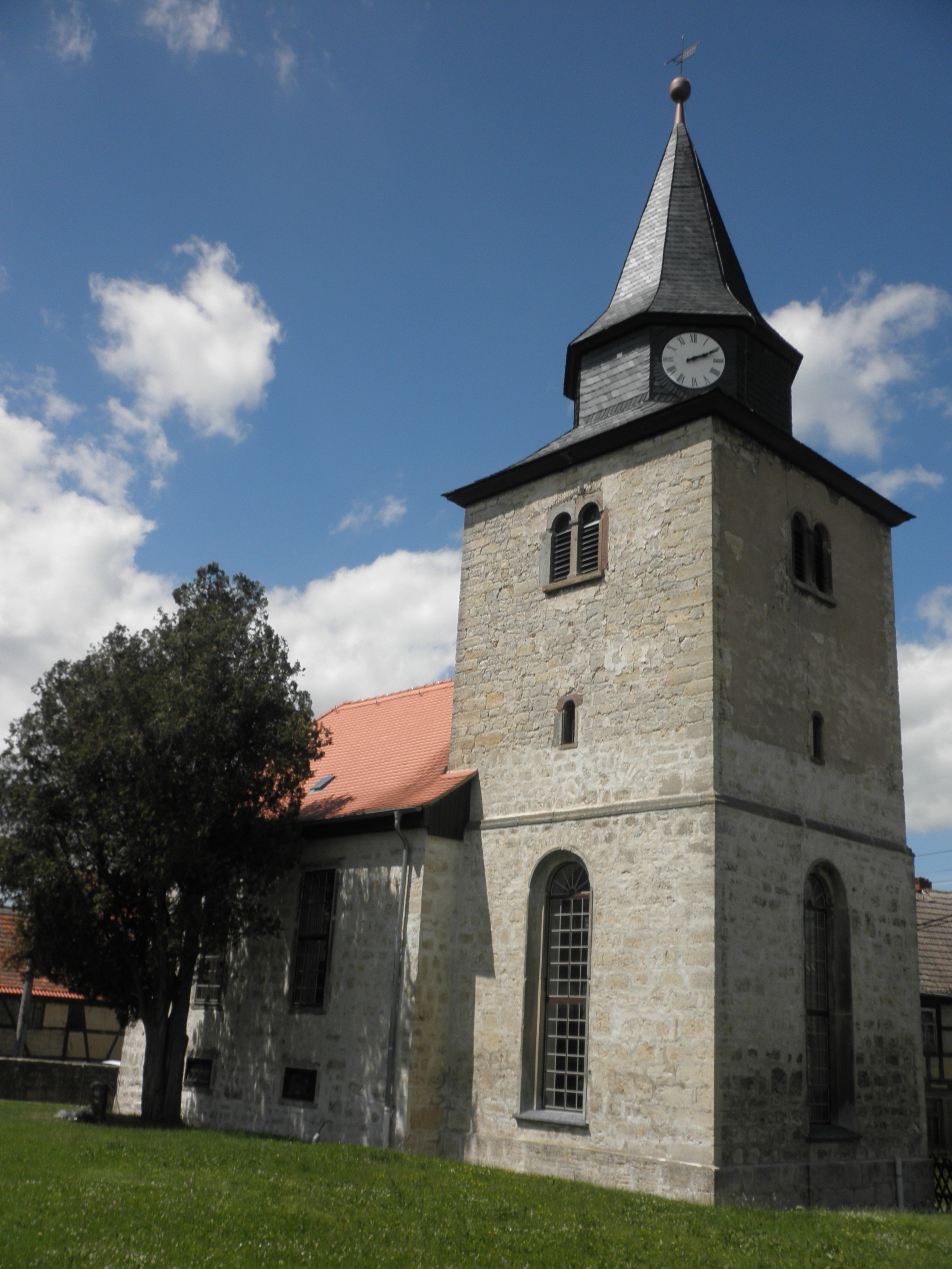 Church in Zimmritz (Milda) in Thuringia